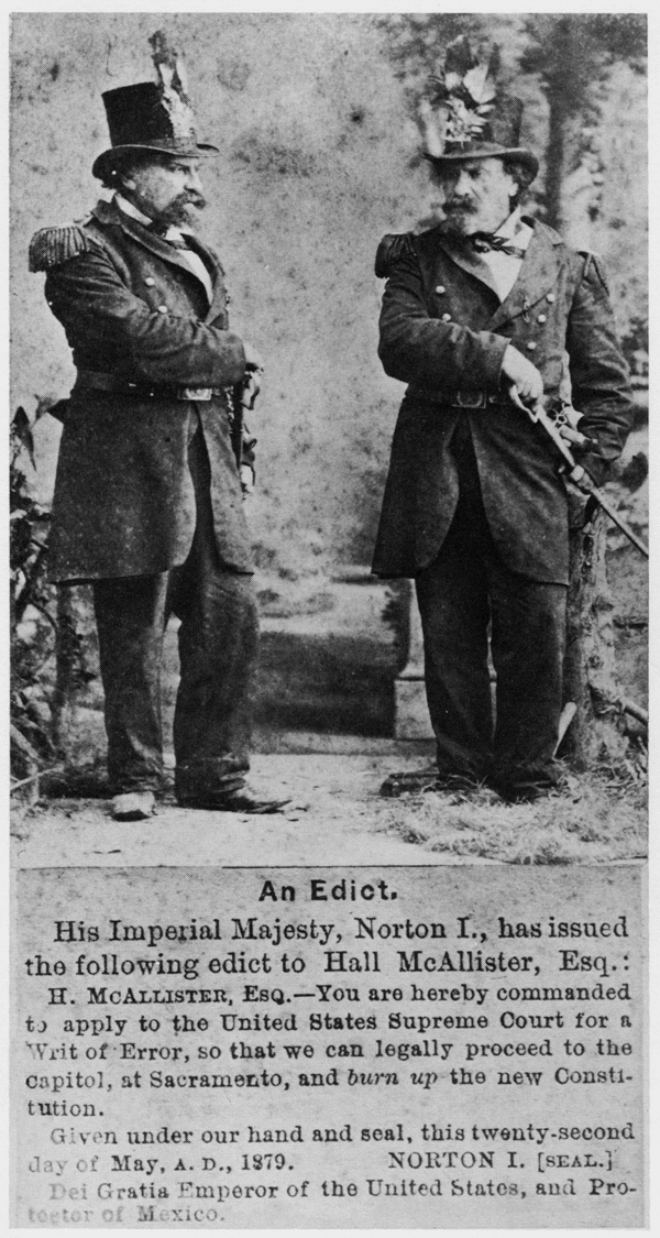 Press cutting with Emperor Norton the First photo and text of his edict. Changes from original image: Removed dust and scratches Cropped Sharpened Modified brightness and contrast